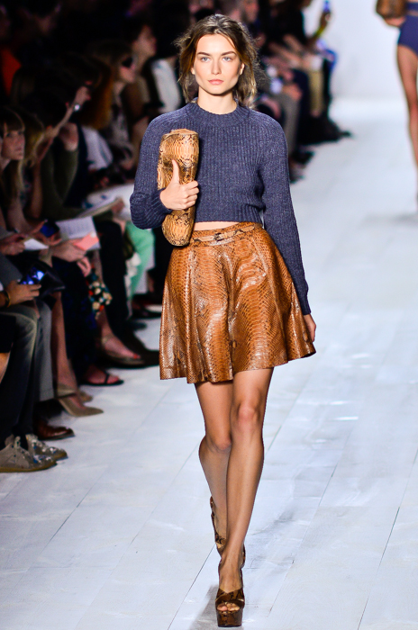 Andreea Diaconu walks the runway at the Michael Kors Spring/Summer 2014 show at New York Fashion Week, September 2013.